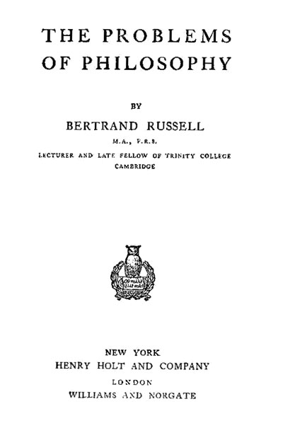 Title page